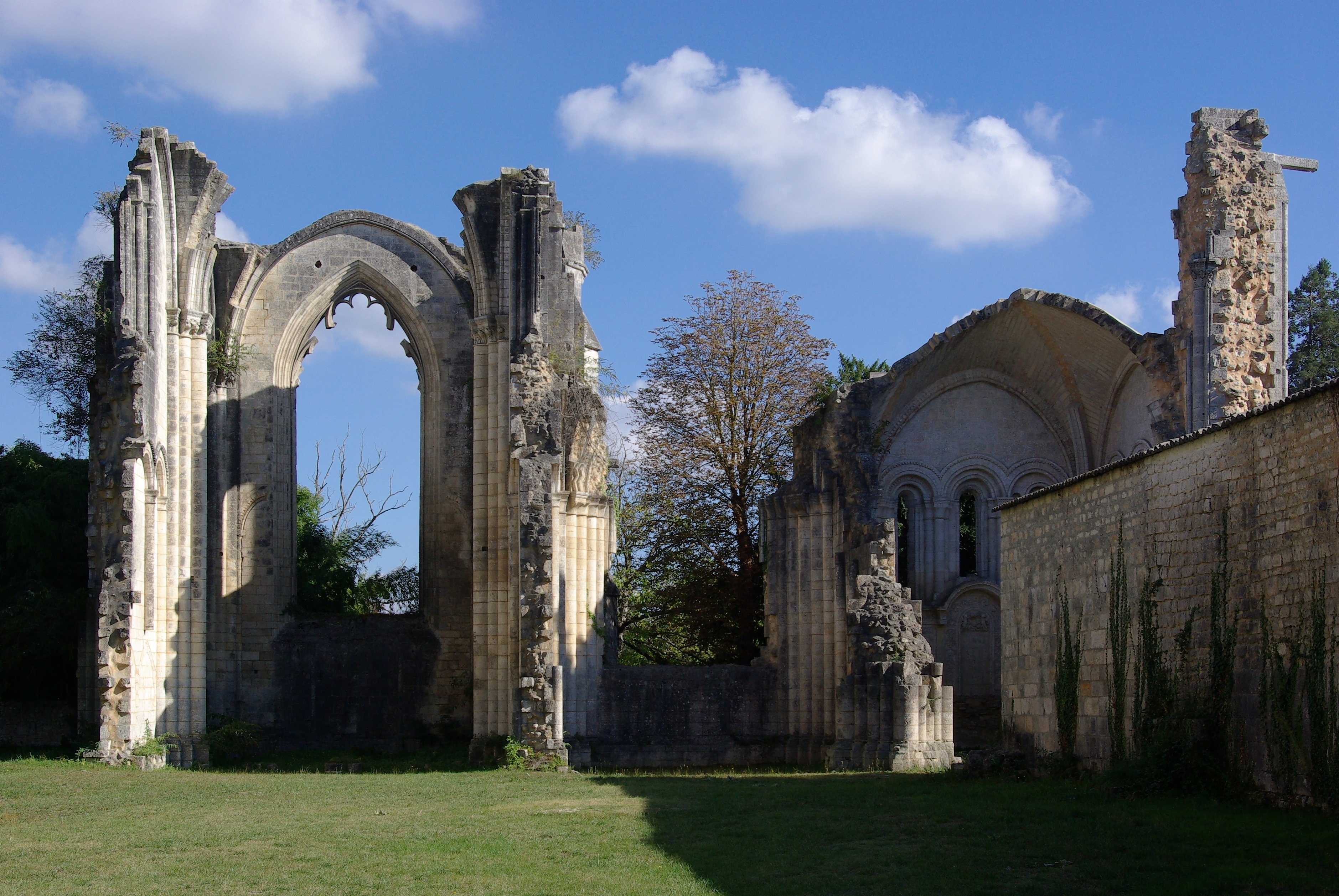 Ruins of La Couronne abbey (XIIth-XVIth century), Charente, France. .